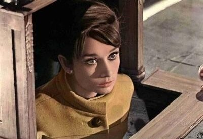 Audrey Hepburn in Charade